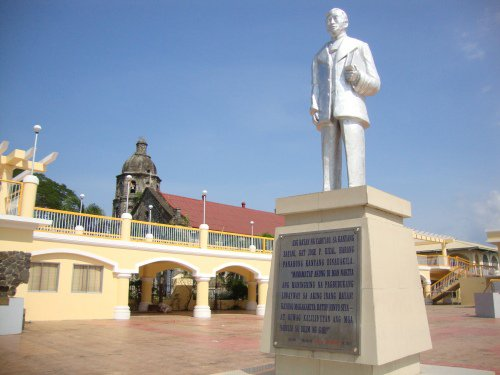 Inside the Cabuyao Town Plaza, Cabuyao